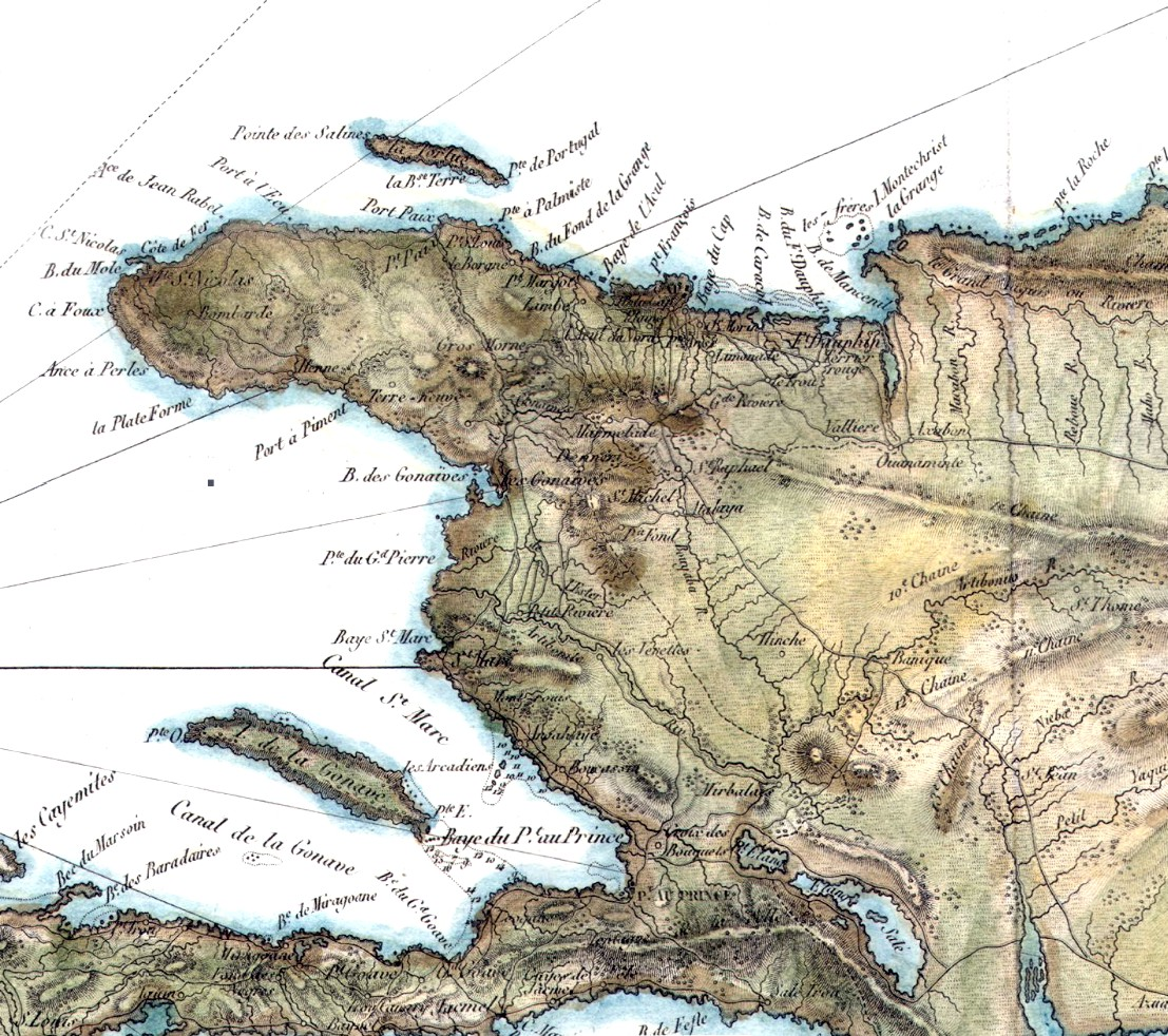 Ambroise Tardieu map of Santo Domingo or Hispaniola, West Indies